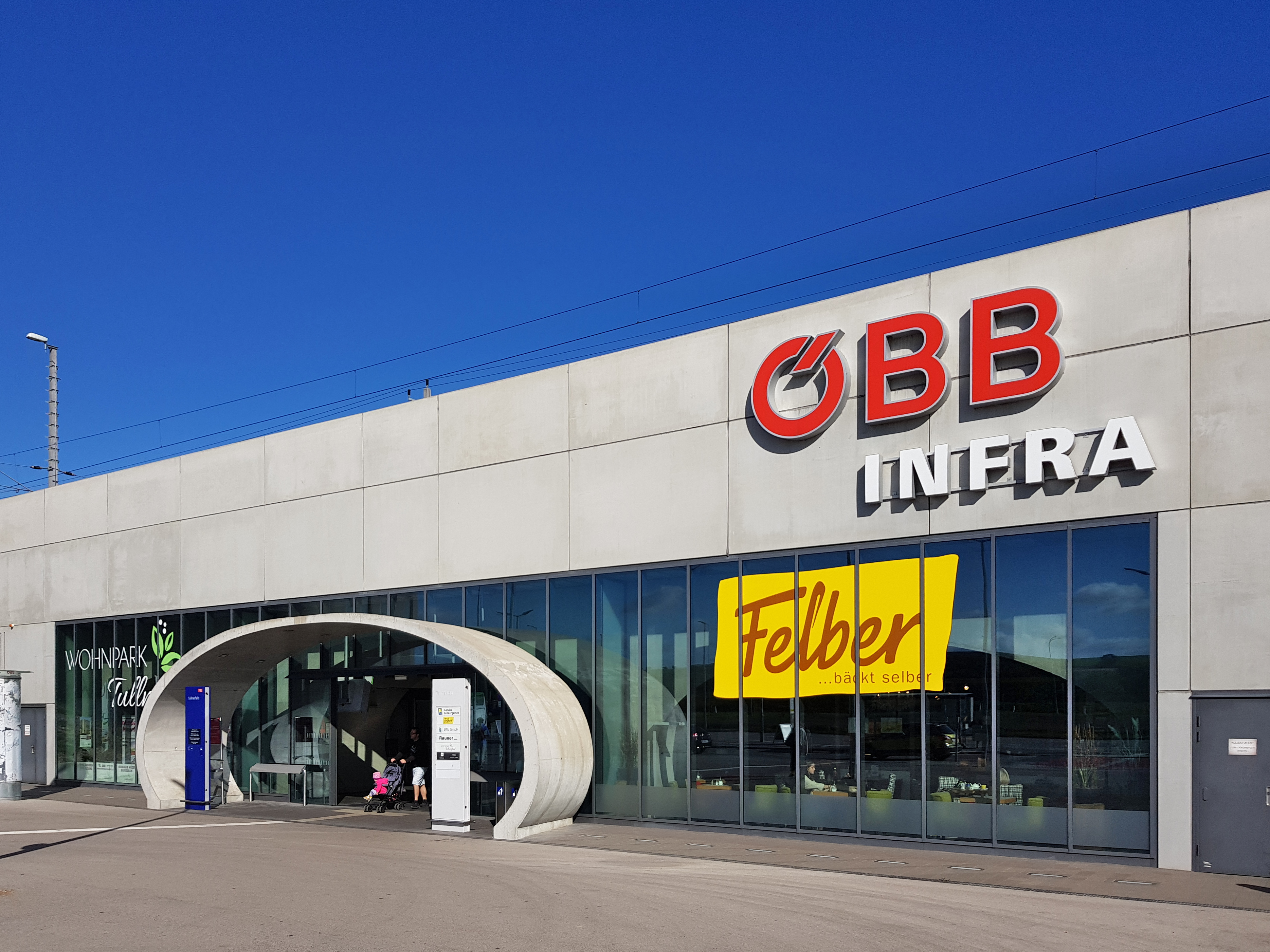 Bahnhof Tullnerfeld